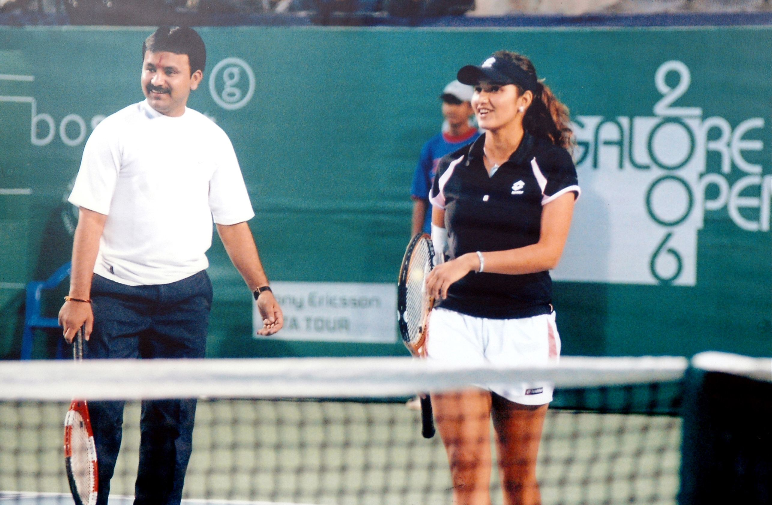 Santosh Lad in exhibition match held in Bangalore